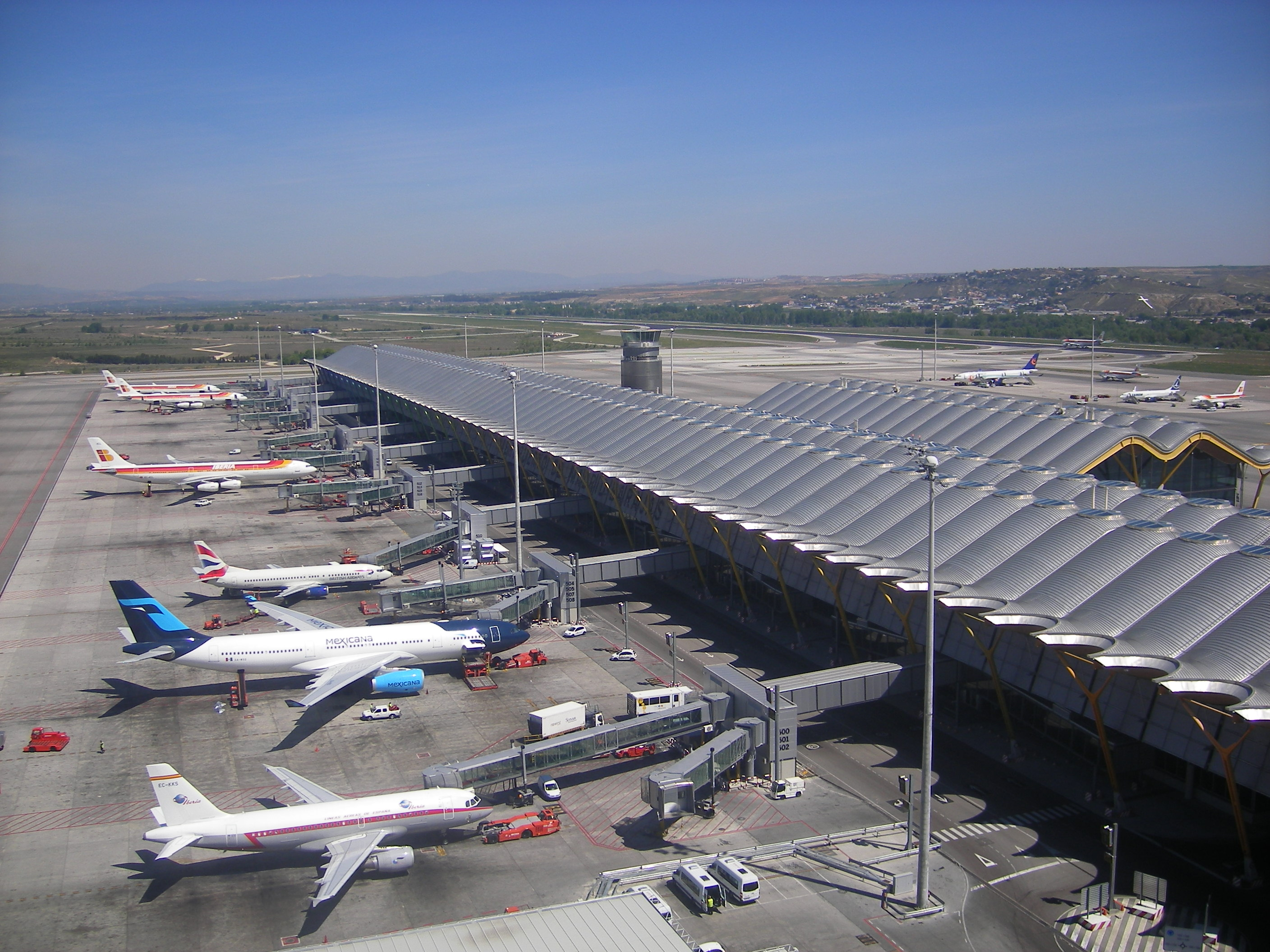 Satellite Terminal 4 of Madrid-Barajas Airport, at Madrid, Spain.